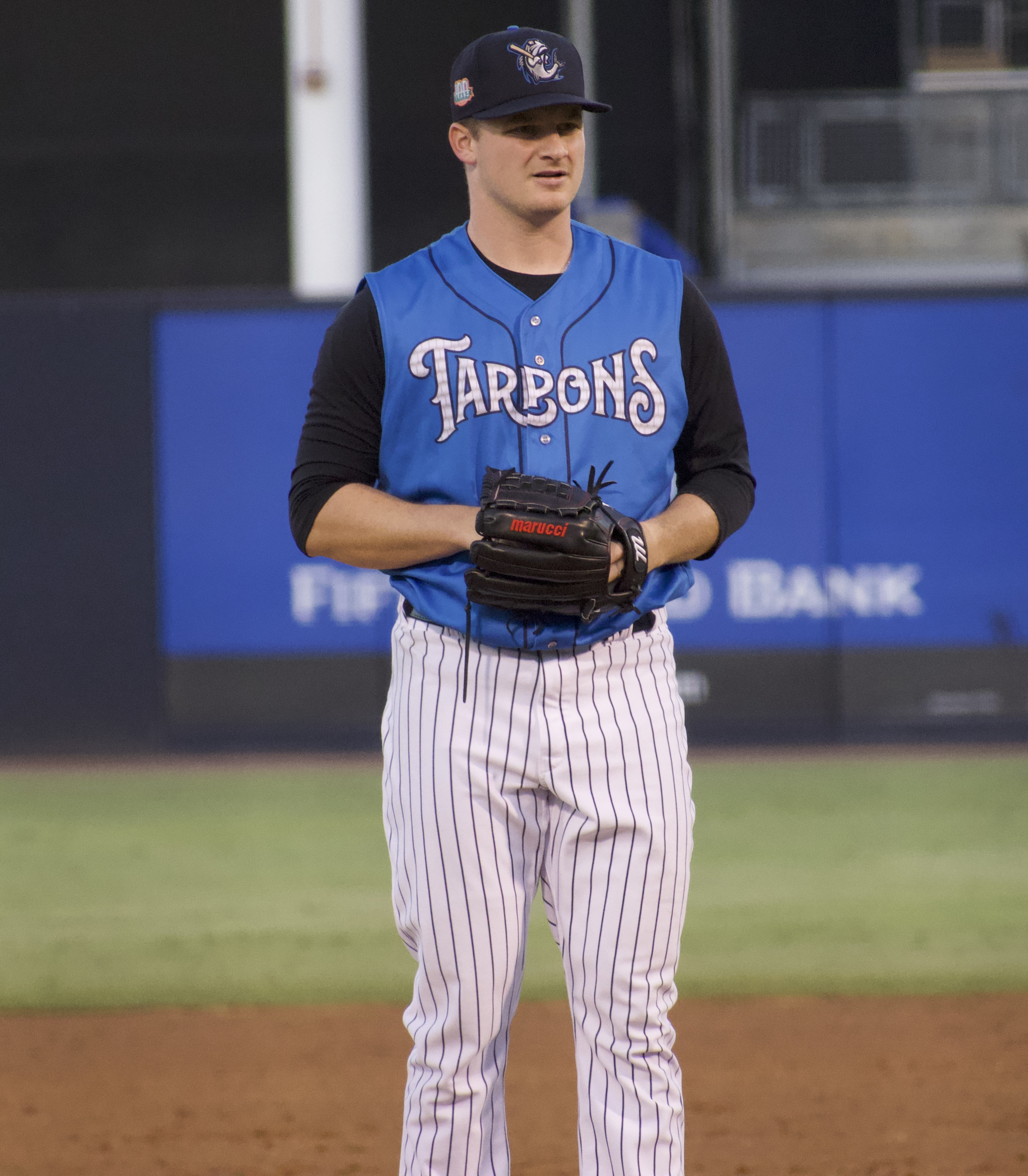 Clarke Schmidt of the Tampa Tarpons in April 2019